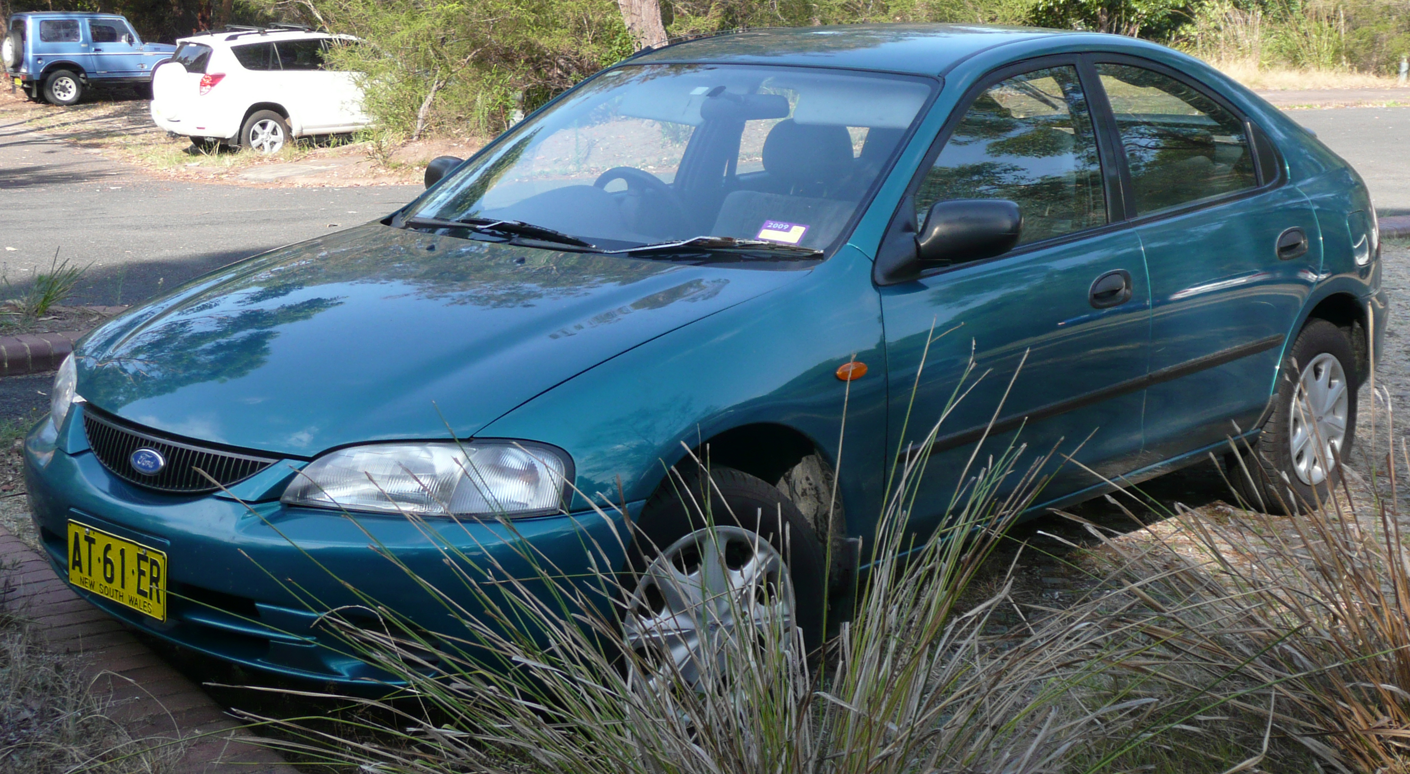 1996–1997 Ford Laser (KJ II (KL)) Liata 5-door hatchback. Photographed in Audley, New South Wales, Australia.